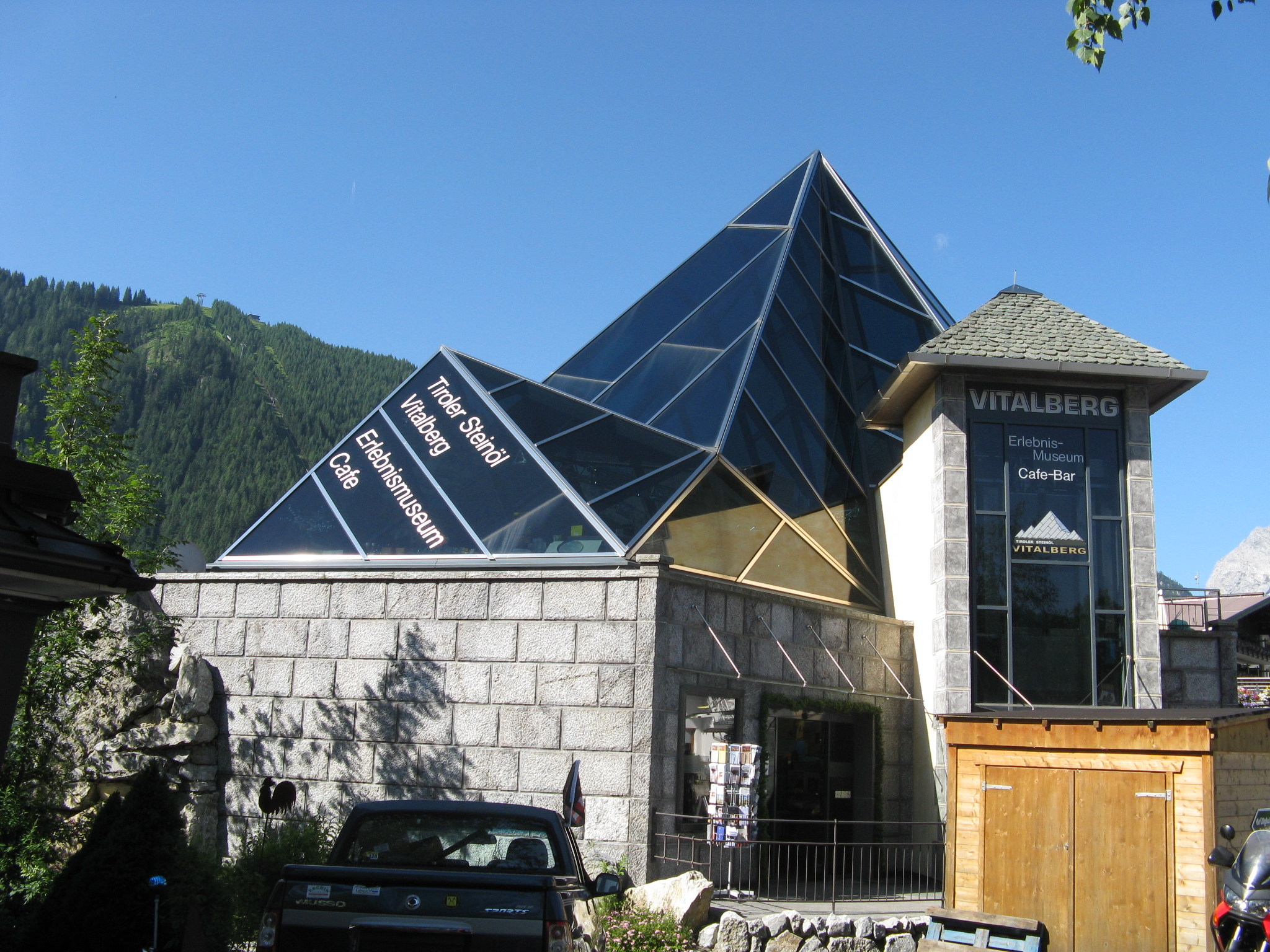 "Vitalberg" (Museum of oil shale mining), Pertisau/Achensee, Tyrol/Austria